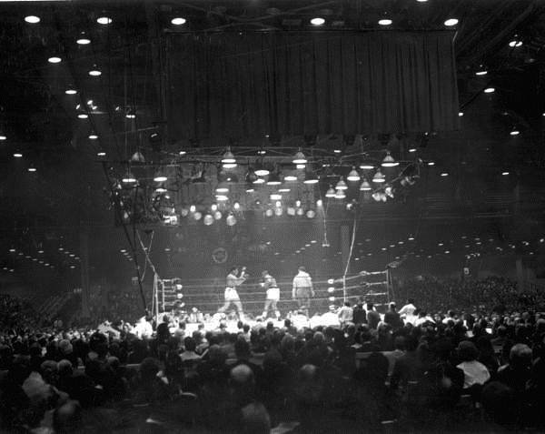 Local call number: RC11106 Title: Championship fight between Cassius Clay and Sonny Liston: Miami Beach, Florida Date: February 25, 1964 Physical descrip: 1 photoprint - b&w - 8 x 10 in. Series Title: Reference collection Repository: State Library and Archives of Florida, 500 S. Bronough St., Tallahassee, FL 32399-0250 USA. Contact: 850.245.6700. Persistent URL: Visit Florida Memory to find resources for Black History Month and to learn about the contributions of African-Americans in Florida history.